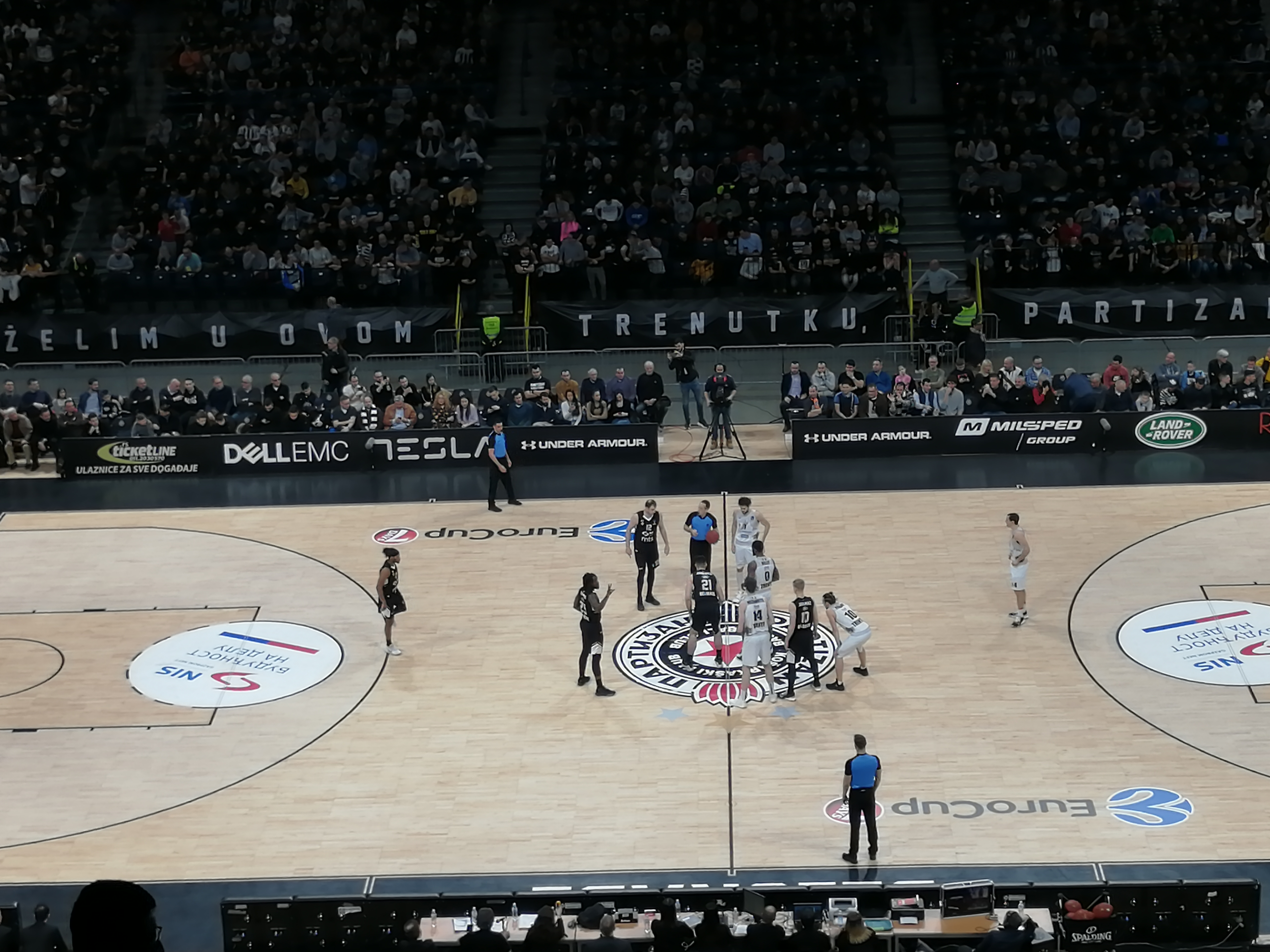 2019–20 EuroCup Basketball: Partizan - Dolomiti Energia Trento